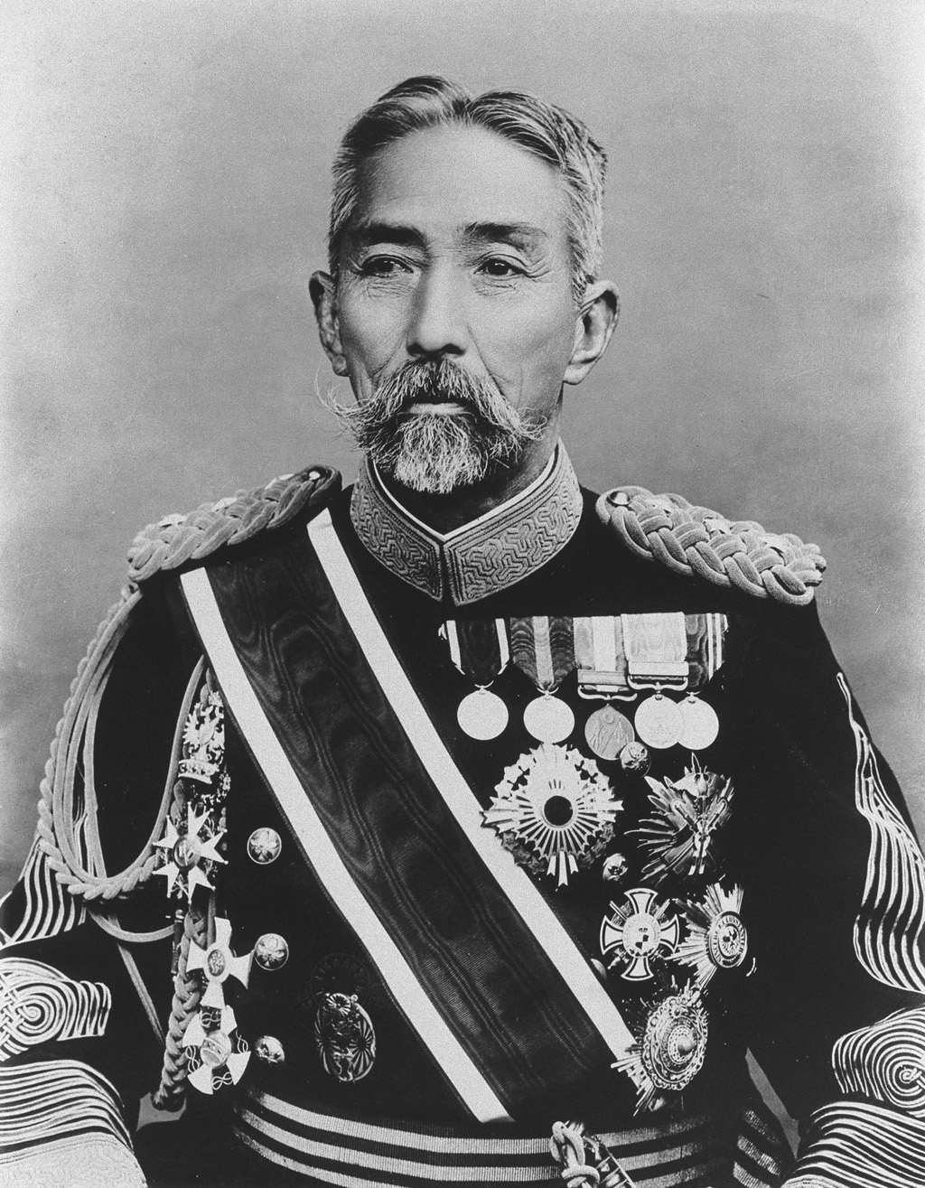 Portrait of Nozu Michitsura (野津道貫, 1841 – 1908)